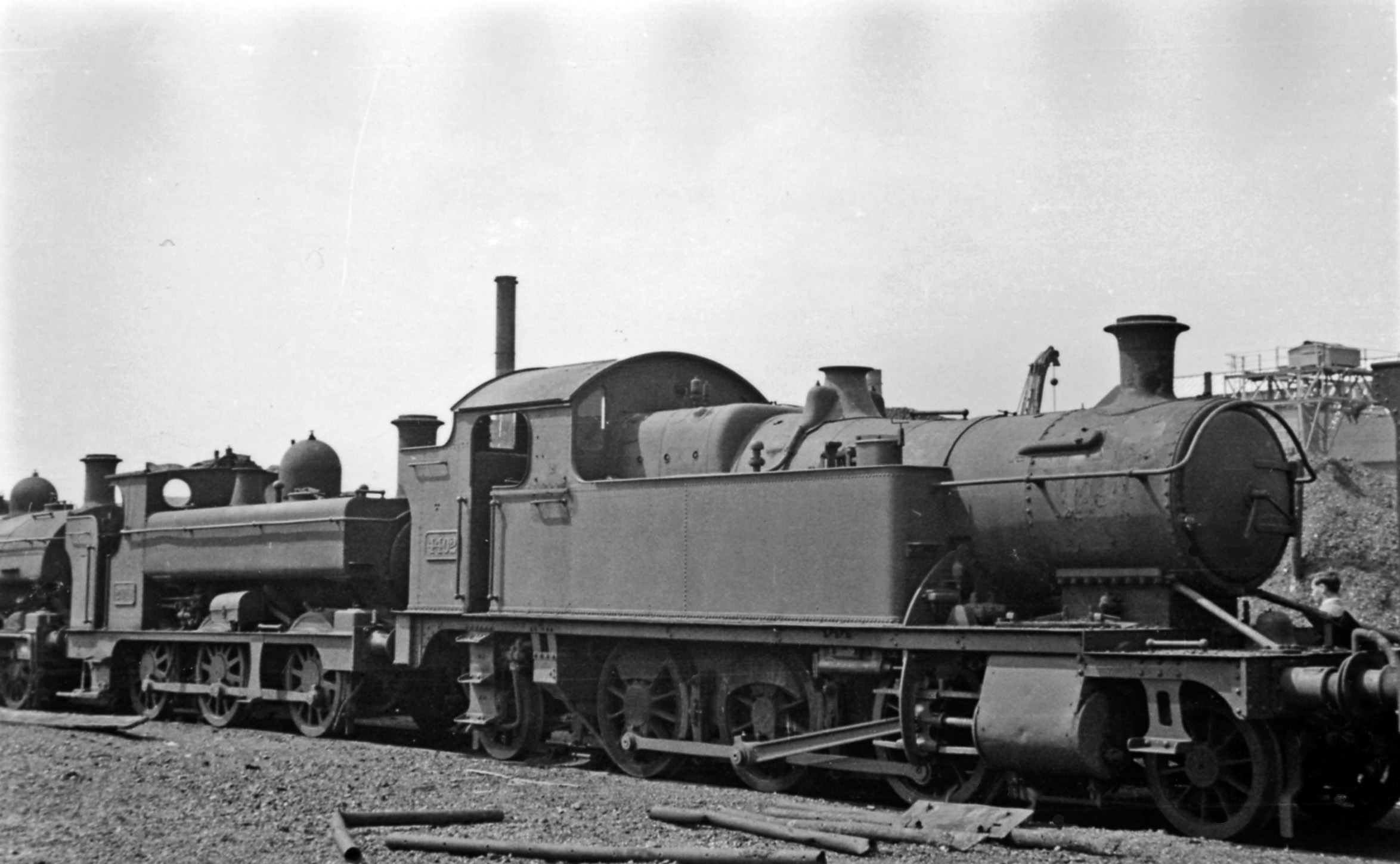 Swindon Works: 2-6-2T and 0-6-0T on Dump. Amongst numerous old engines awaiting scrap in 1950: '4400' class 2-6-2T No. 4402 (built 7/05) and '850' class 0-6-0T No. 2019 (built 3/95 as a saddle-tank, a pannier from 4/11), both withdrawn 12/49